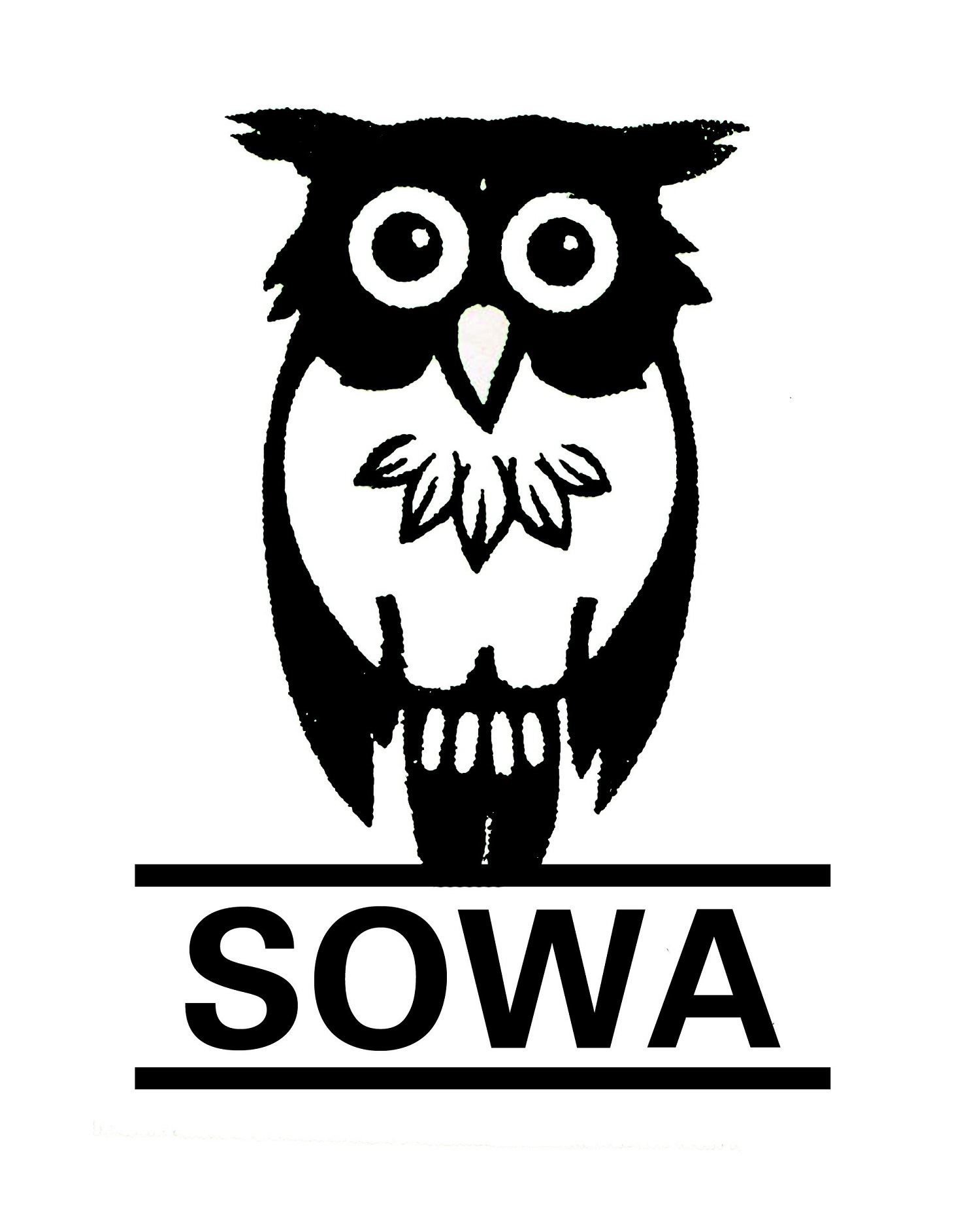 The file contains image of the logo used by Skarzyska Oficyna Wydawnicza "Sowa", Polish publishing house since 1983.